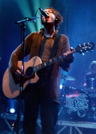 Craig Nicholls, lead singer of the band The Vines.